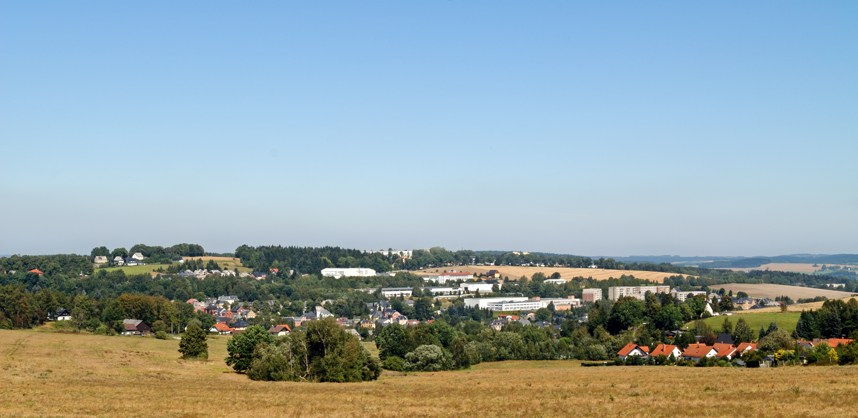 This image shows the township Ellefeld, Germany.